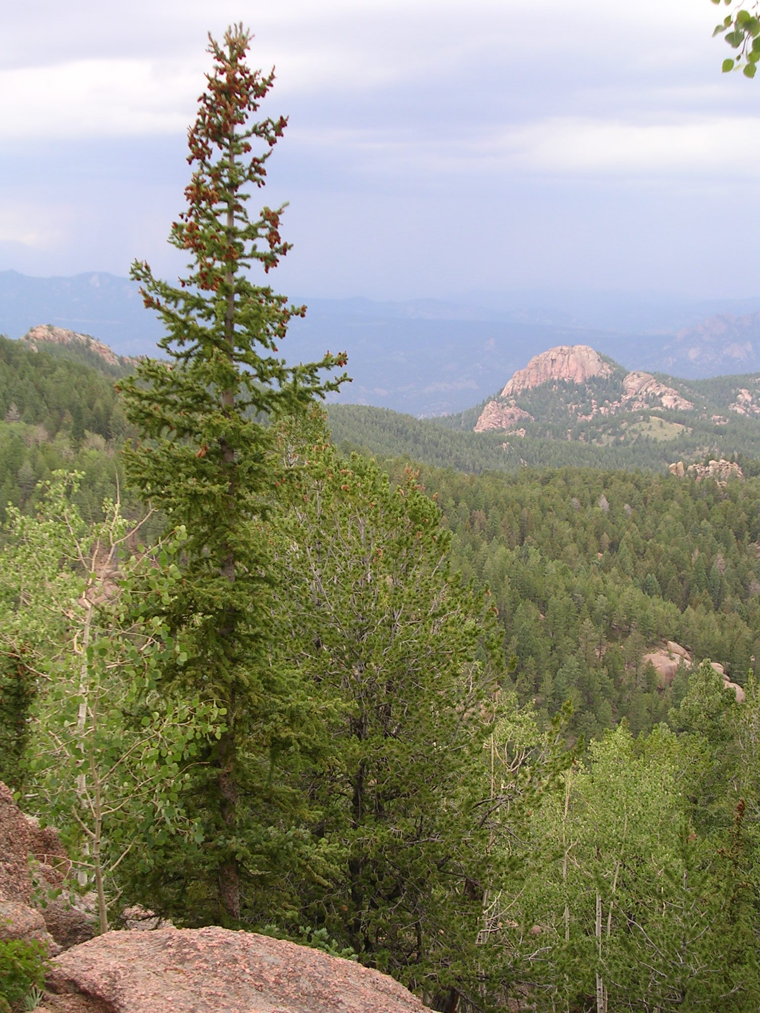 A picture of the Pike National Forest taken from the trail to the Devil's Head Lookout in Colorado. Tall tree is Picea engelmannii, with Pinus flexilis right of it, and Populus tremuloides left of it.